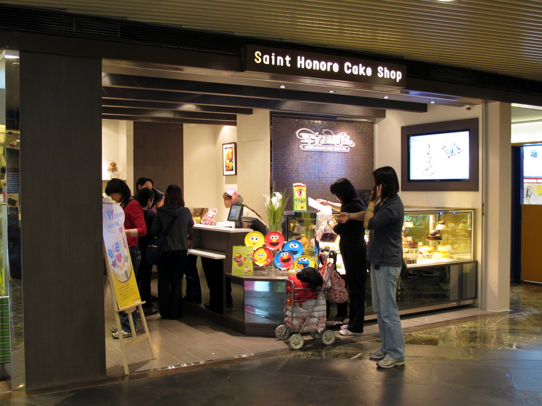 Saint Honore Cake Shop in Langham Place